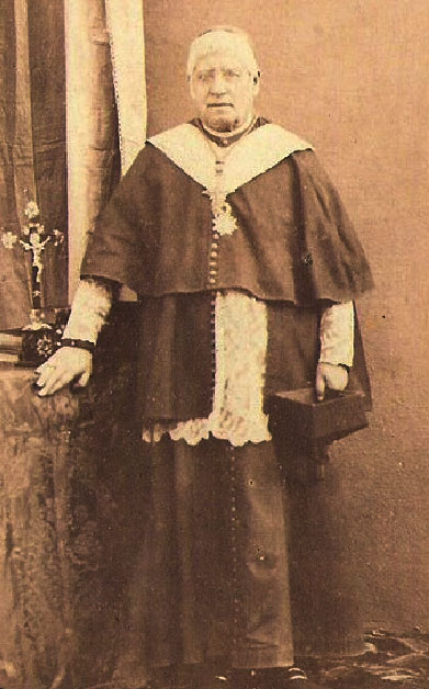 Cirilo Cardinal Alameda (1781-1872). Photo by Jean Laurent done in Madrid circa 1870